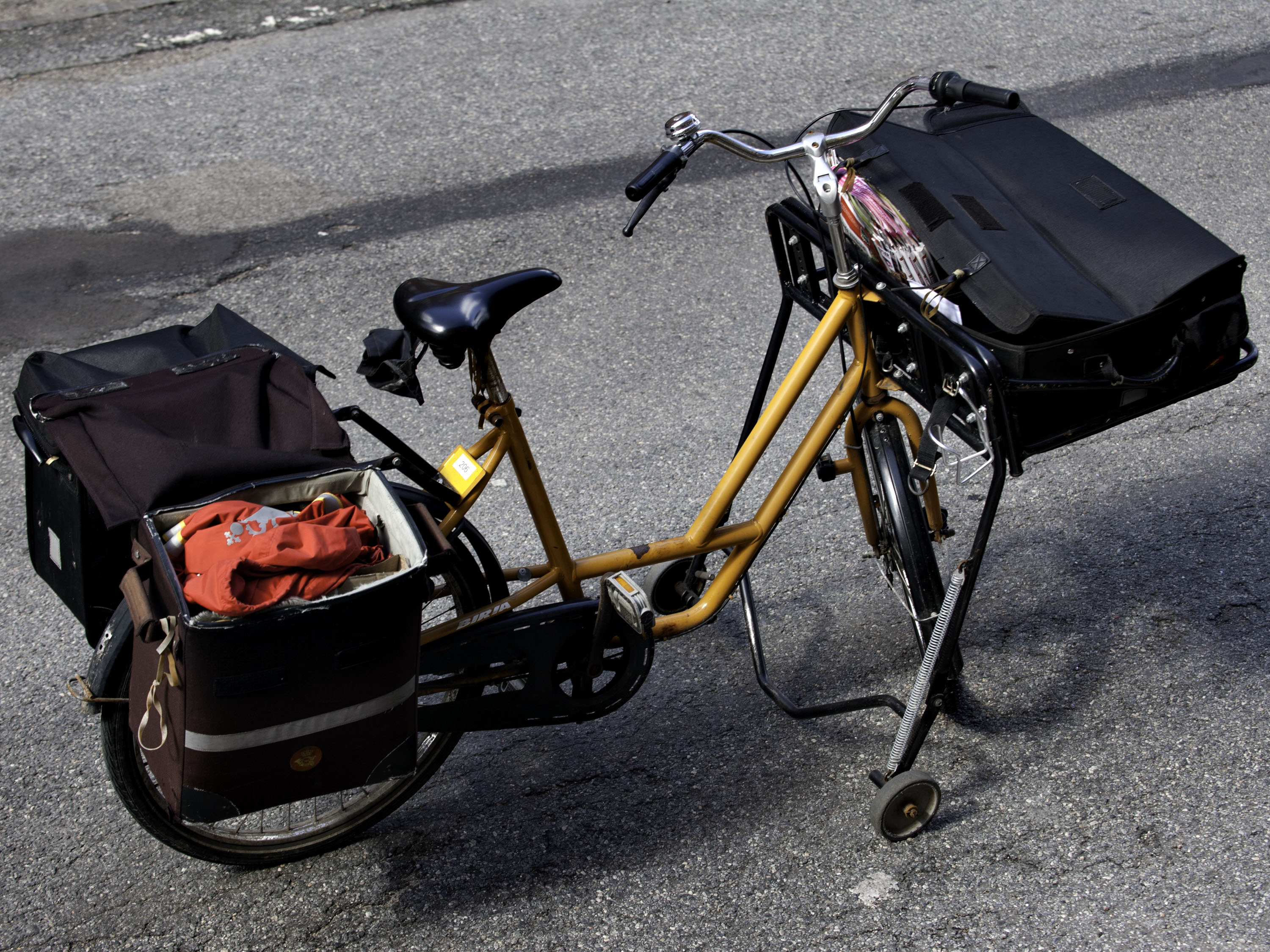 Bicycle used by national postal company Post Danmark to deliver consumer mail